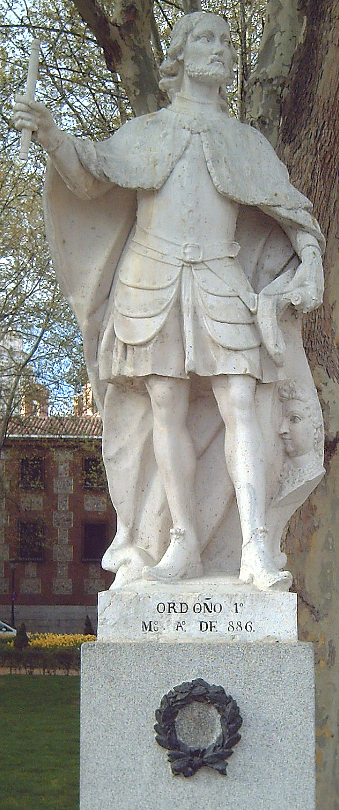 Statue of Ordoño I of Asturias († 866) at the Plaza de Oriente (square) in Madrid (Spain). Sculpted in white stone by Andrés de los Helgueros between 1750 and 1753.